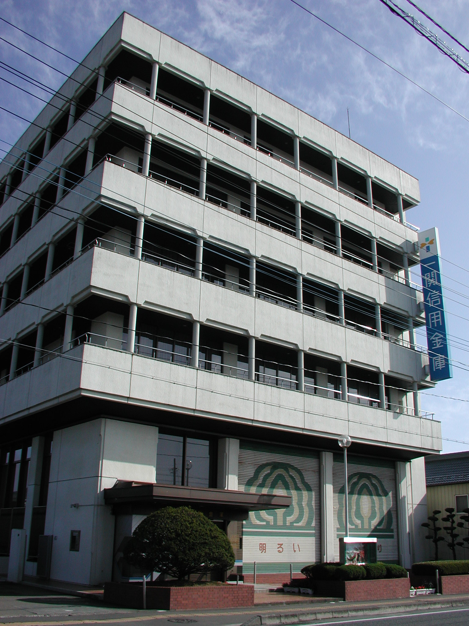 Headquarters of the Ichinoseki Shinkin Bank in Ichinoseki City, Iwate Prefecture, Japan